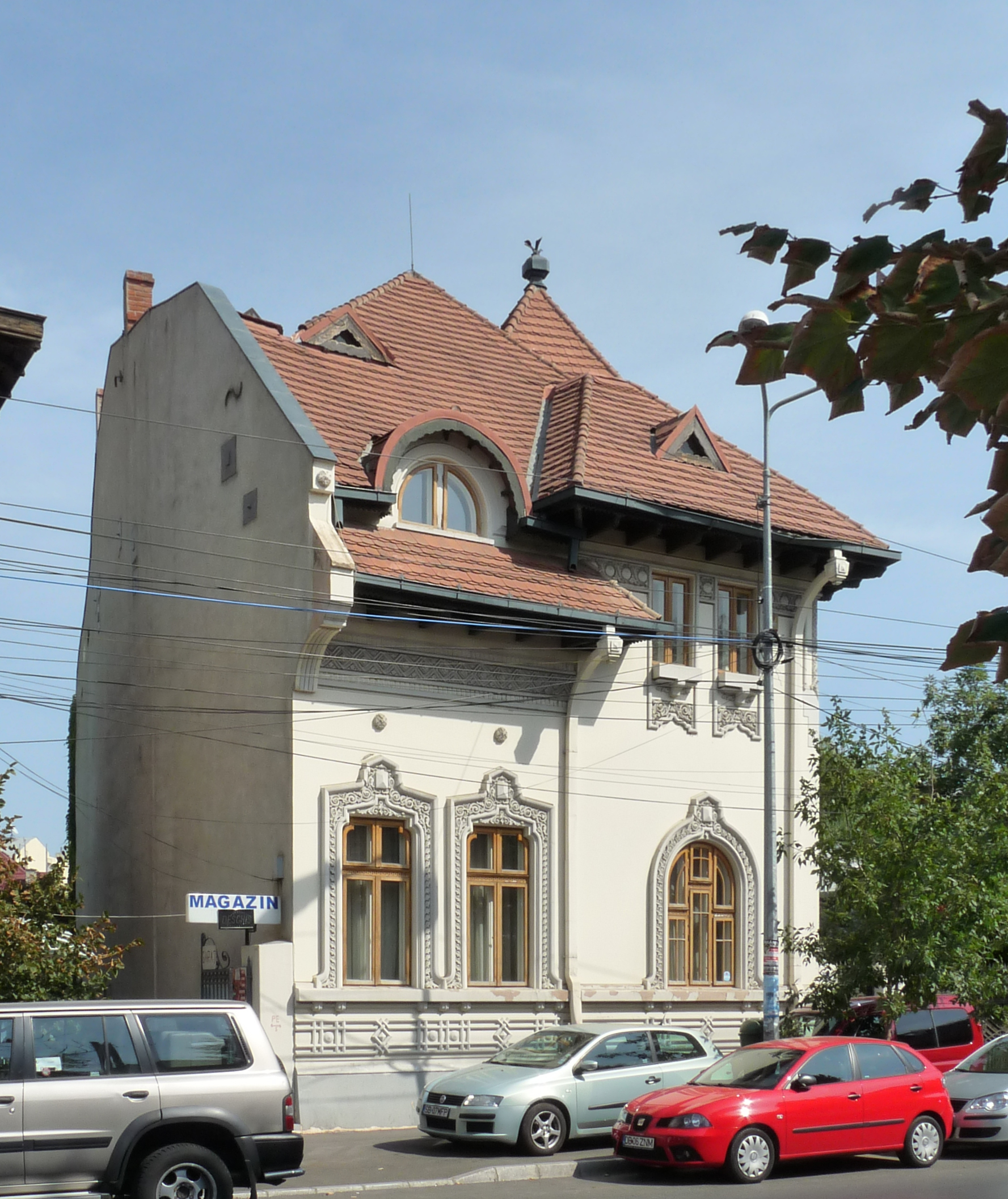 Historical building in Bucharest, Romania, on Polonă street 64